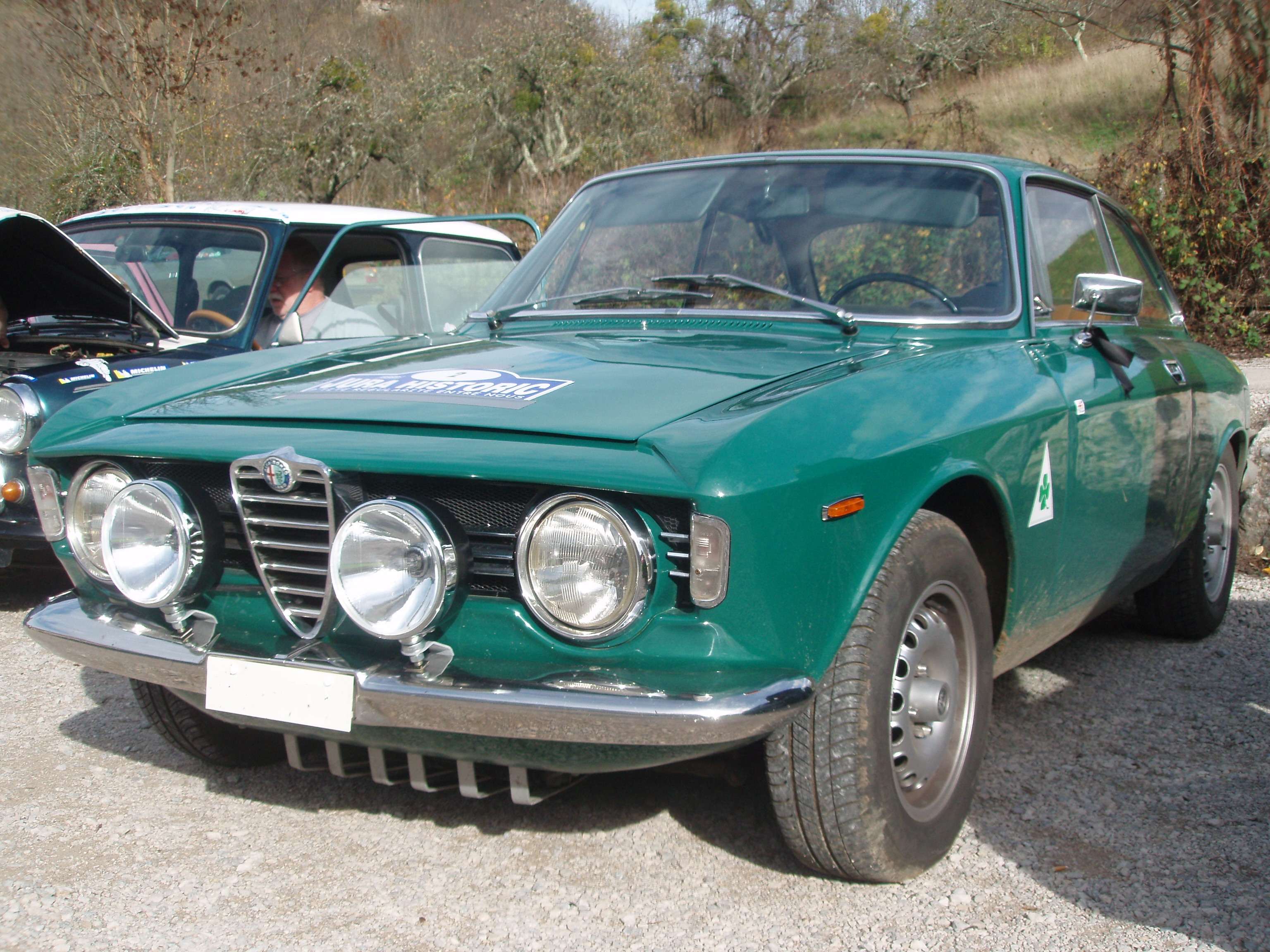 A green Alfa Romeo Giulia GT during the "Jura Historic 2010" rallye.